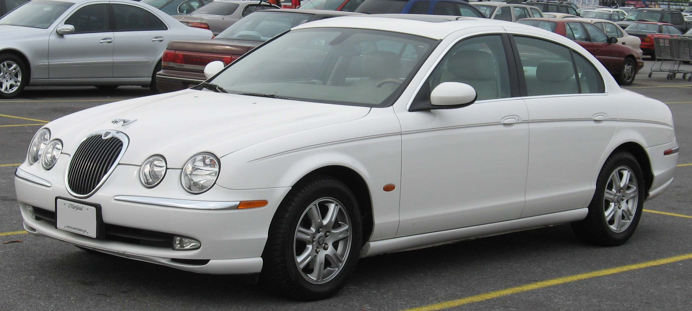 Jaguar S-Type photographed in USA.